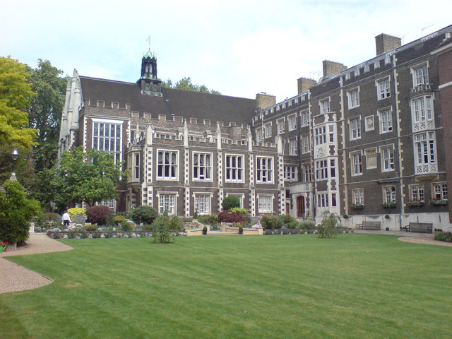 Middle Temple Gardens, London The gardens are accessible to the public for a few hours each weekday. All the offices near here are associated with the legal profession. Middle Temple Hall is in the background. It is easy to forget that you are in the middle of a massive conurbation when you are here.